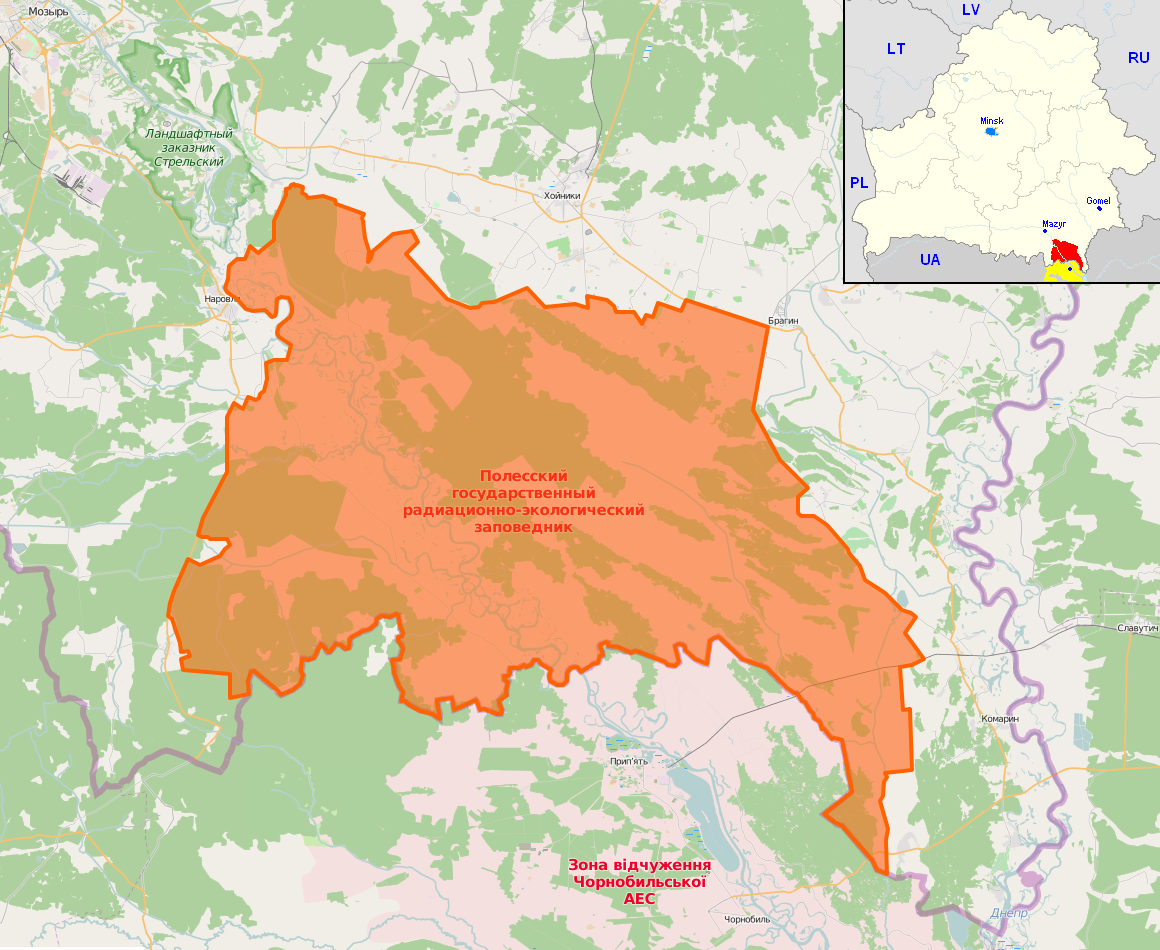 This map may be incomplete, and may contain errors. Don't rely solely on it for navigation.